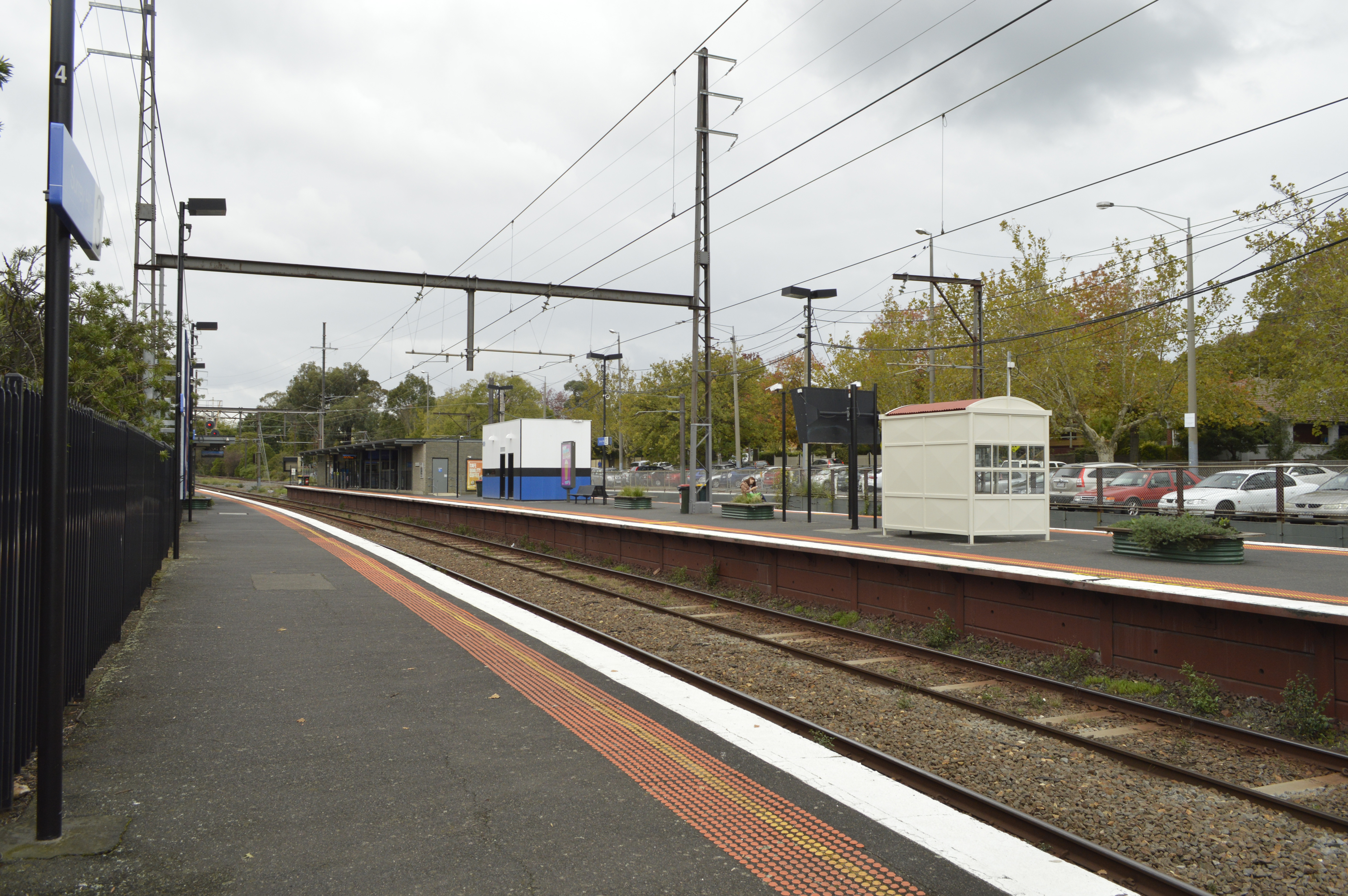 View from platform 3 looking east.